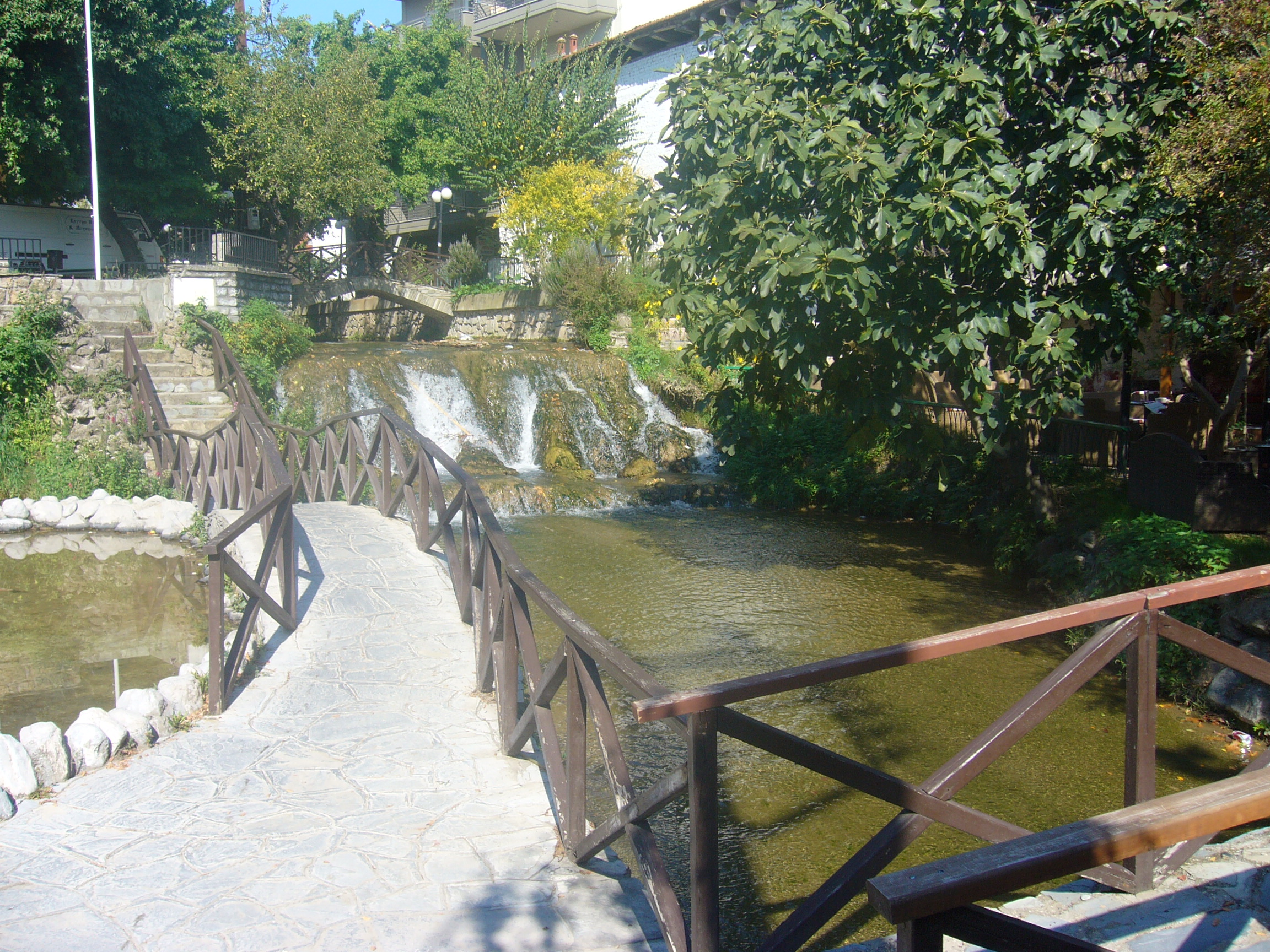 Edessa, Pella prefecture, Greece.